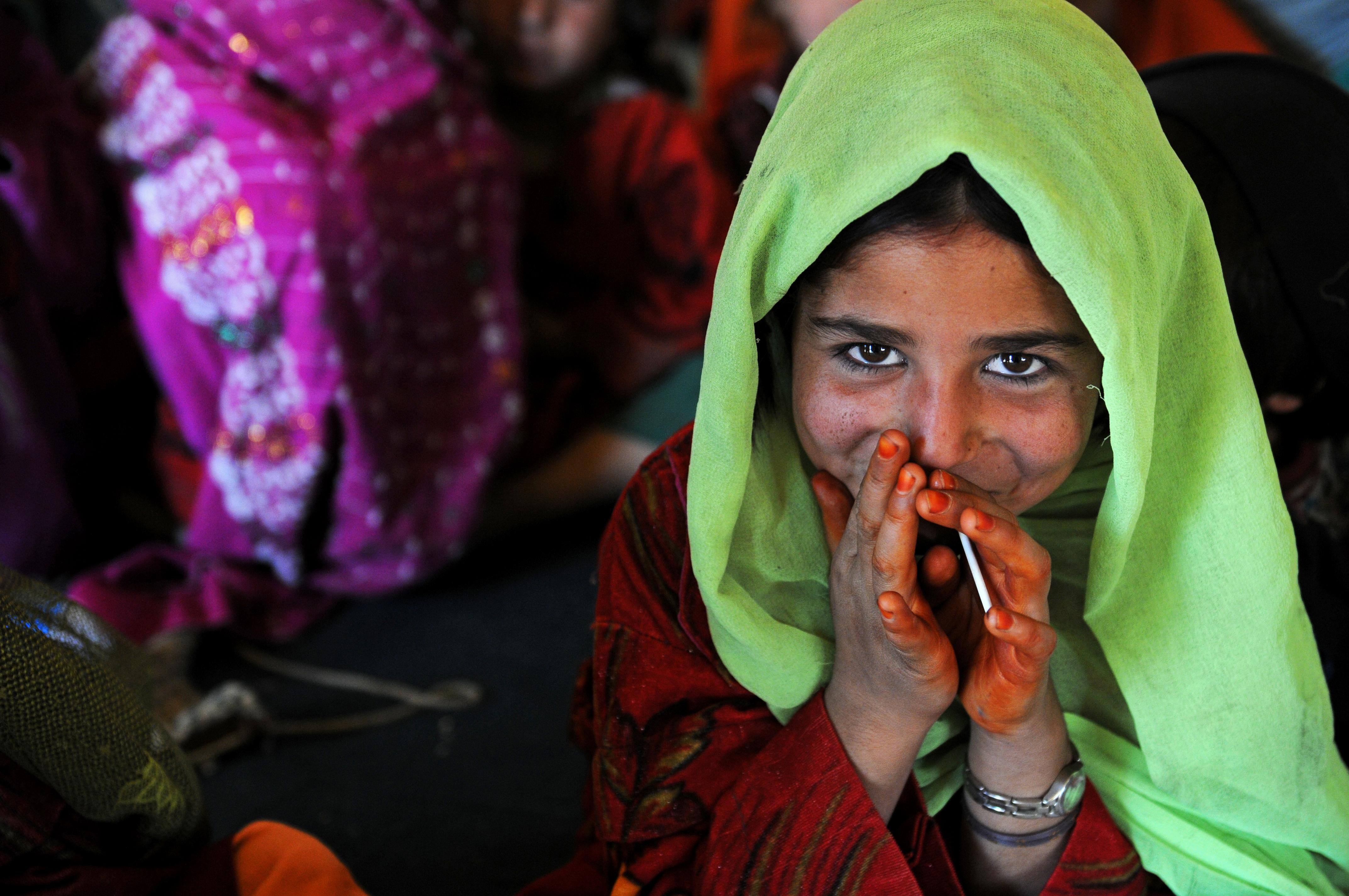 A young Afghan girl smiles shyly after being given a lollipop by an Afghan Local Policeman during a break from her lessons at the Camp 3 school in the internally displaced persons village in Task Force Spartan’s area of operations Nov. 17. (Photo/U.S. Army Sgt. Amanda M. Hils)